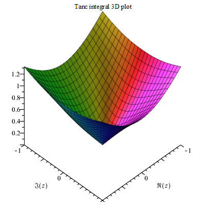 Tanc integral 3D plot